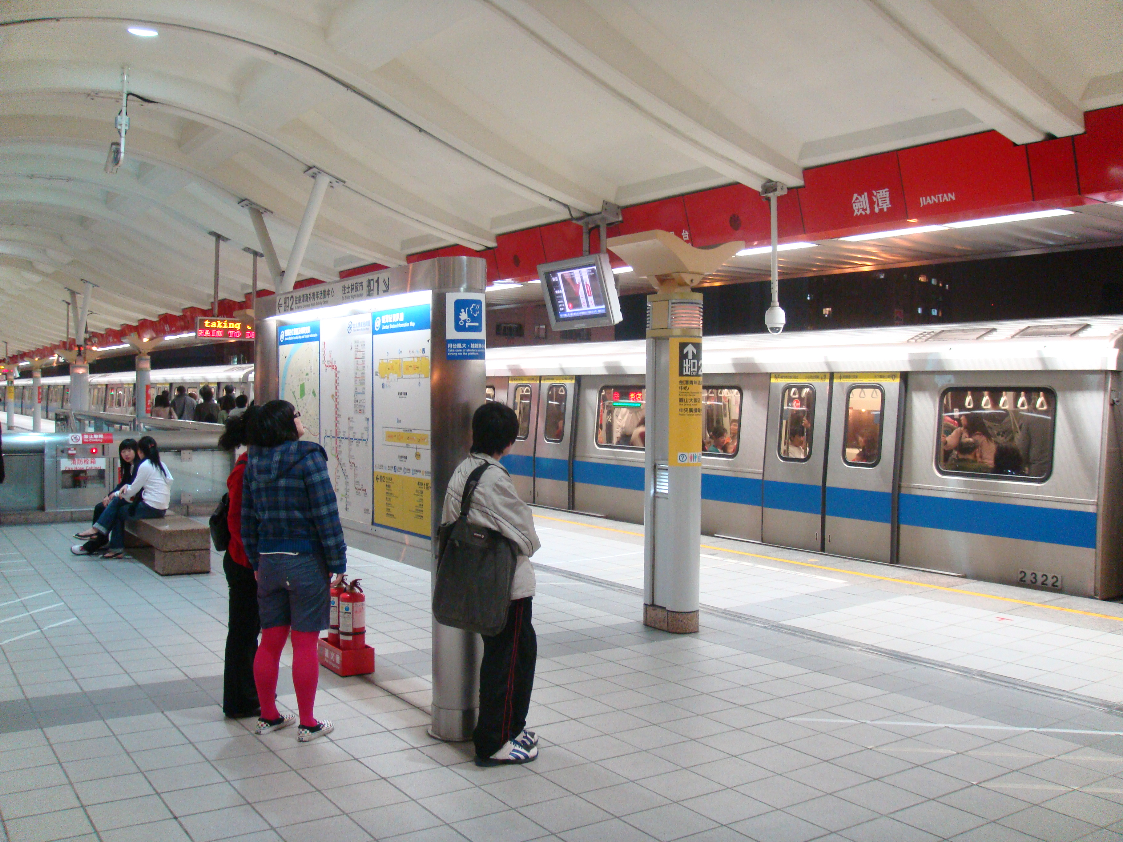 Taipei Metro C371 No.322 at Platform 2, Jiantan Station.